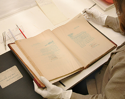 A Book Conservator at Work